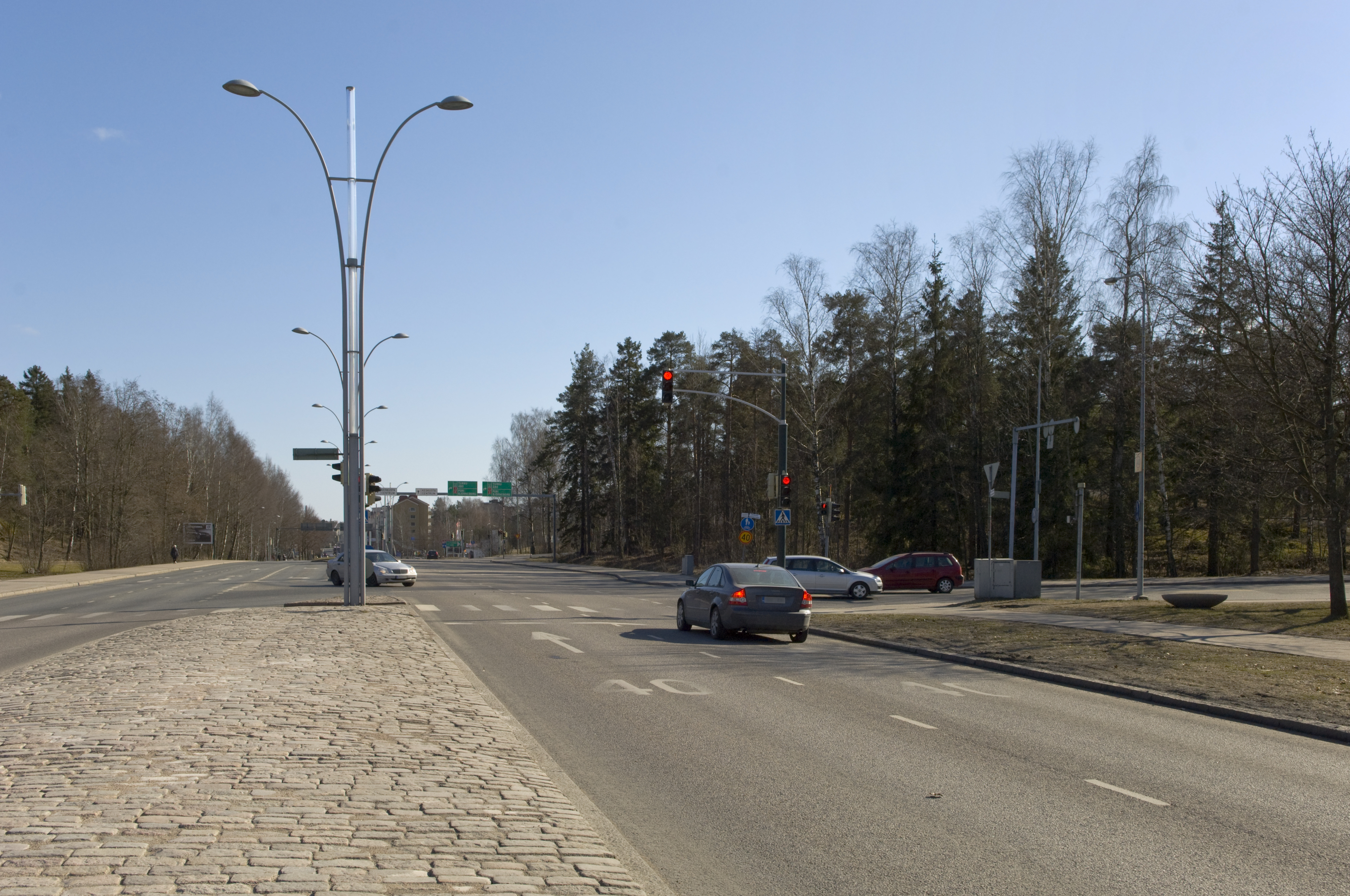 The intersection of Huopalahdentie road and Ulvilantie road in Munkkivuori, Helsinki, Finland.